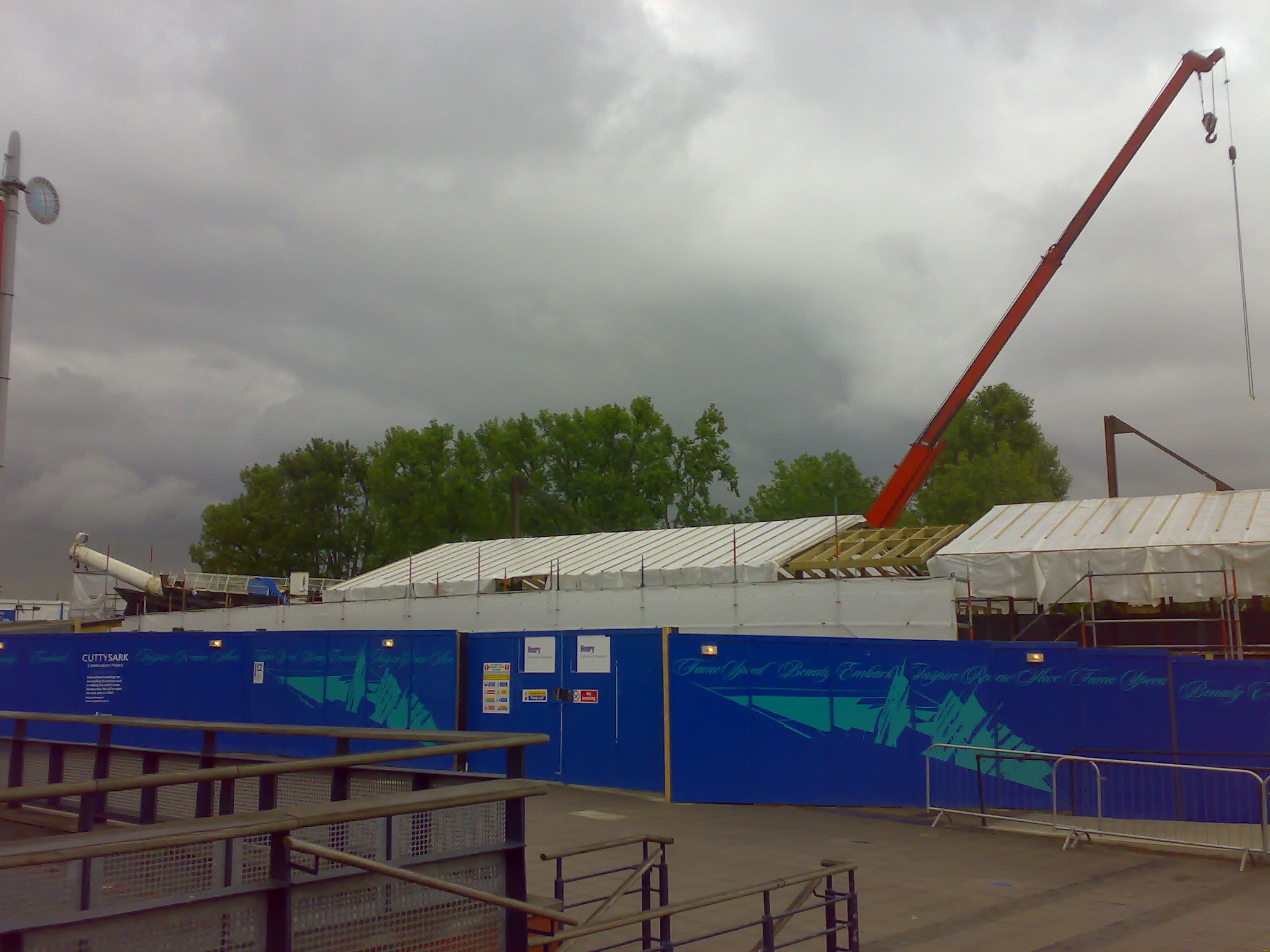 Photograph of the Cutty Sark being restored, exactly one week before it caught fire.